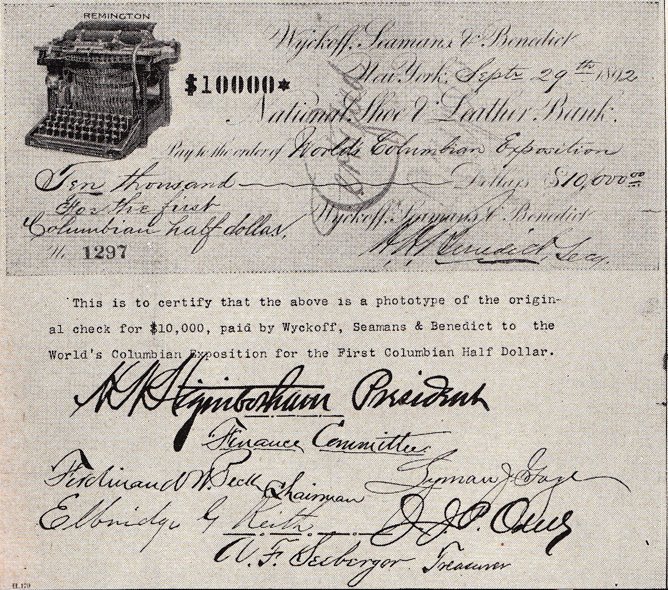 Photocopy of check for $10,000 for the first Columbian half dollar.